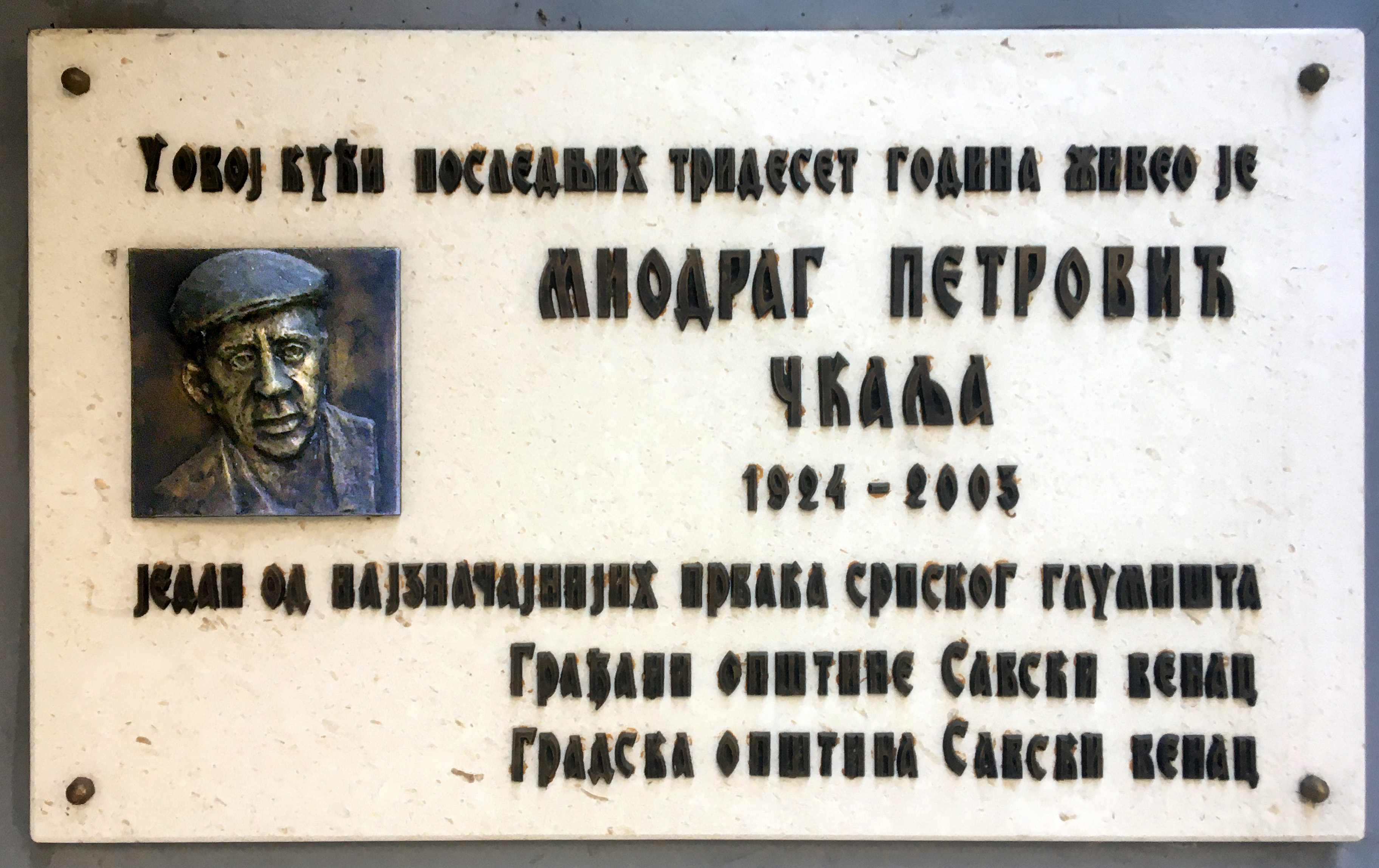 Memory plate in Čkalja's inhabitancy, serbian actor